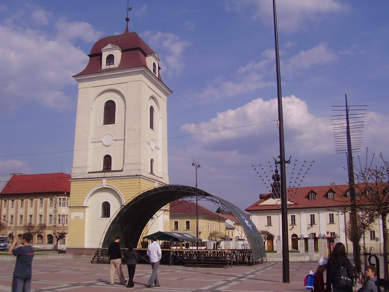 Marek, take by myself